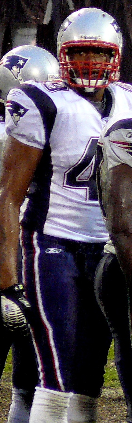 Vince Redd during the New England Patriots/Oakland Raiders game at Oakland Coliseum, December 14, 2008.